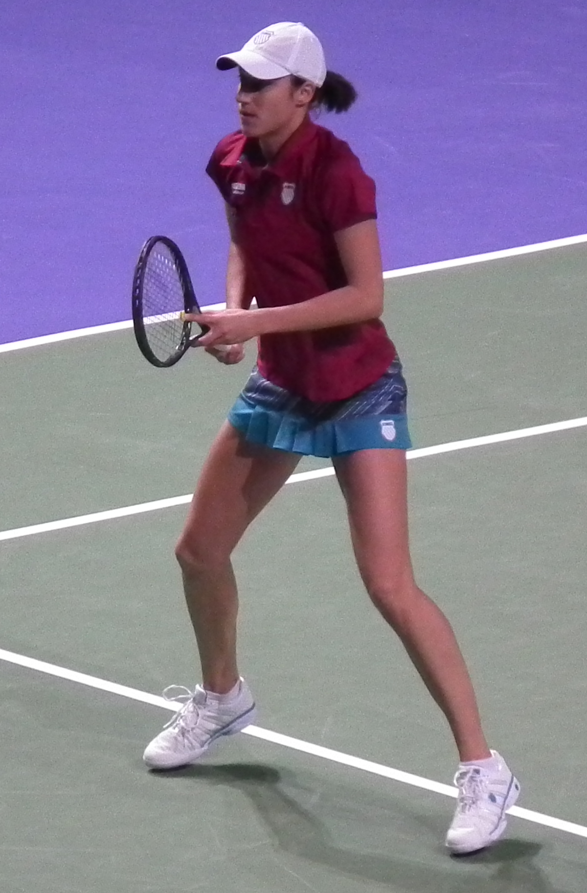 Katarina Srebotnik at WTA Istanbul 2011